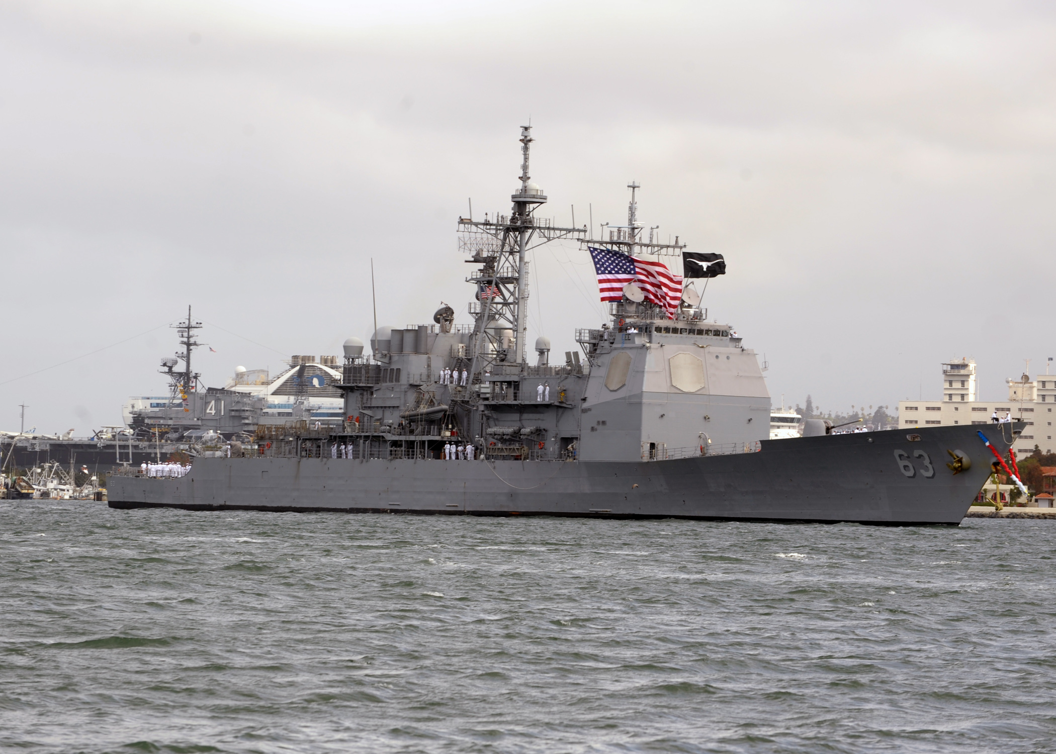 SAN DIEGO (April 8, 2013)- The Ticonderoga-class guided-missile cruiser USS Cowpens (CG 63) arrived in San Diego, April 8, from the 7th Fleet Area of Responsibility after completing its forward-deployed mission and a hull swap with USS Antietam (CG 54). Cowpens has been forward deployed to Yokosuka, Japan since 2000. (U.S. Navy photo by Mass Communication Specialist 2nd Class Rosalie Garcia/Released)